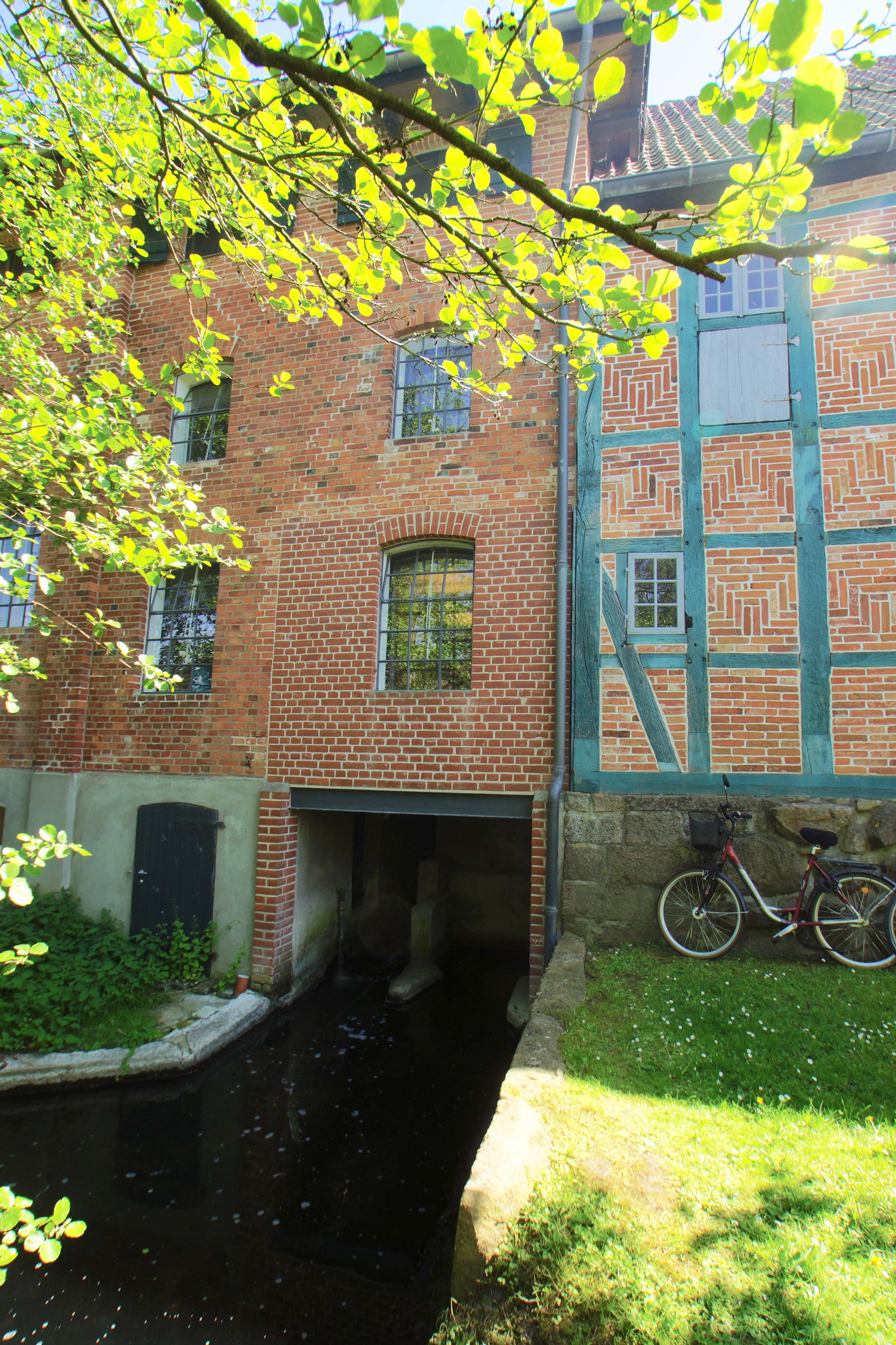 Bad Segeberg (Klein Rönnau), Germany: The river Rönne (Trave) leaving the watermill